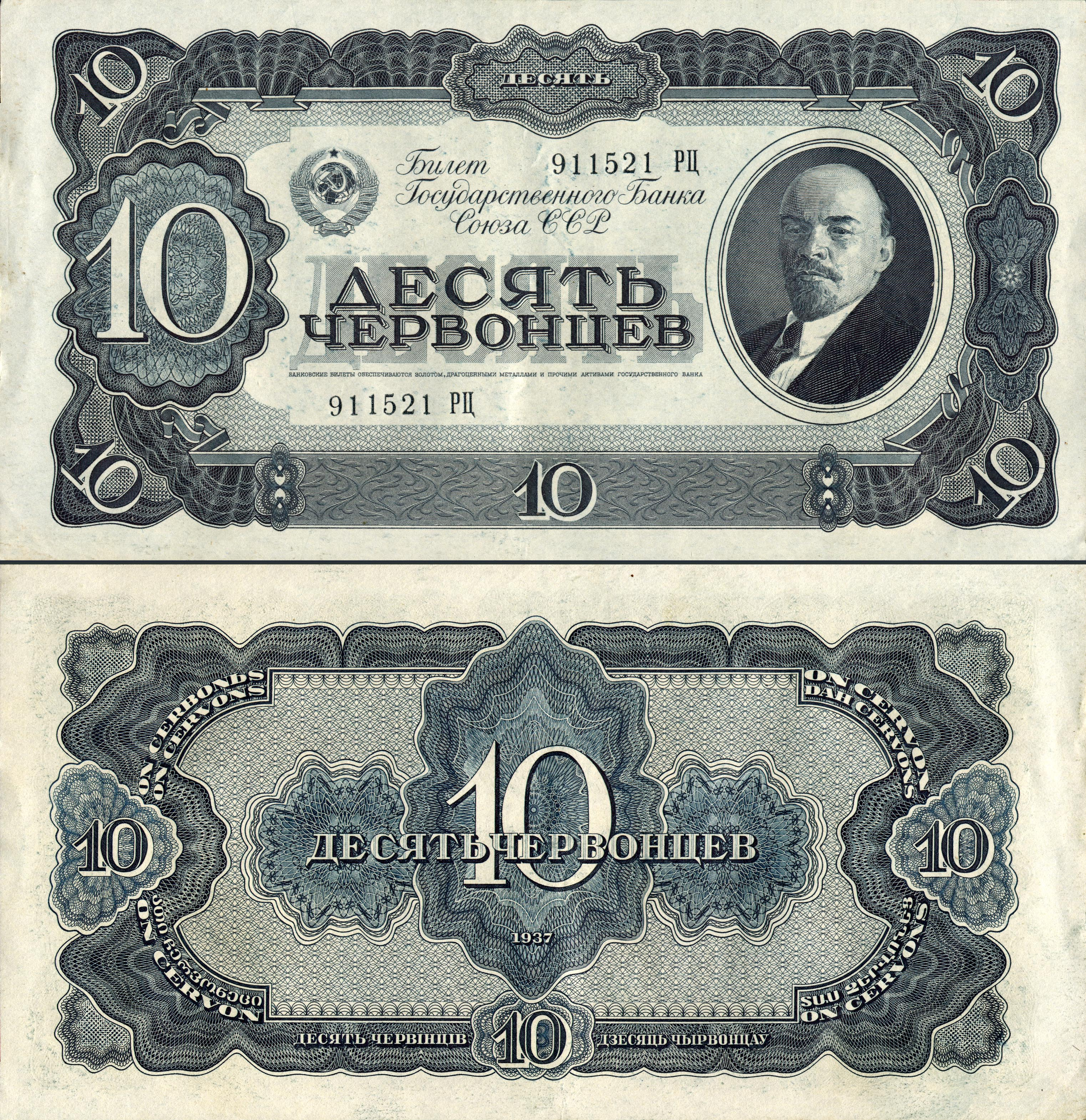 10 cherwontzev 1937. Ivan Dubasov / И. И. Дубасов. Scan and collection by Anton Kitaycev (Boleslav1). Somewhat better quality than Image:10roubles1937b.jpg and a clearer source, I think.